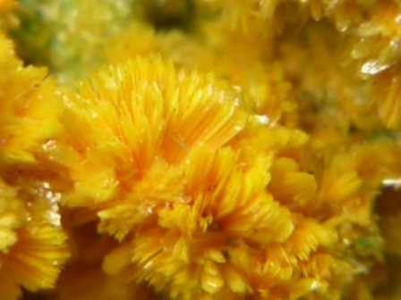 Metatyuyamunite, Carnotite, Malachite, Heterogenite, Quartz Locality: Mashamba West Mine, Kolwezi, Western area, Katanga Copper Crescent, Katanga (Shaba), Democratic Republic of Congo (Zaïre) (Locality at ) Size: 4.0 x 2.2 x 2.2 cm. A very interesting combination specimen with Metatyuyamunite crystals gathered together in sheaves up to 3 mm associated with very small Carnotite flakes. The Carnotite is of a paler yellow than the Metatyuyamunite and not well crystallized. The minerals are sitting on a bed of Malachite. The Malachite sits in turn on Heterogenite covering Quartz crystals. Carnotite and Metatyuyamunite were rare minerals at Mashamba and the specimens where recovered in the mid 1980’s. As the Mashamba mine is flooded and most probably exhausted, no specimens will perhaps ever reach the market again.